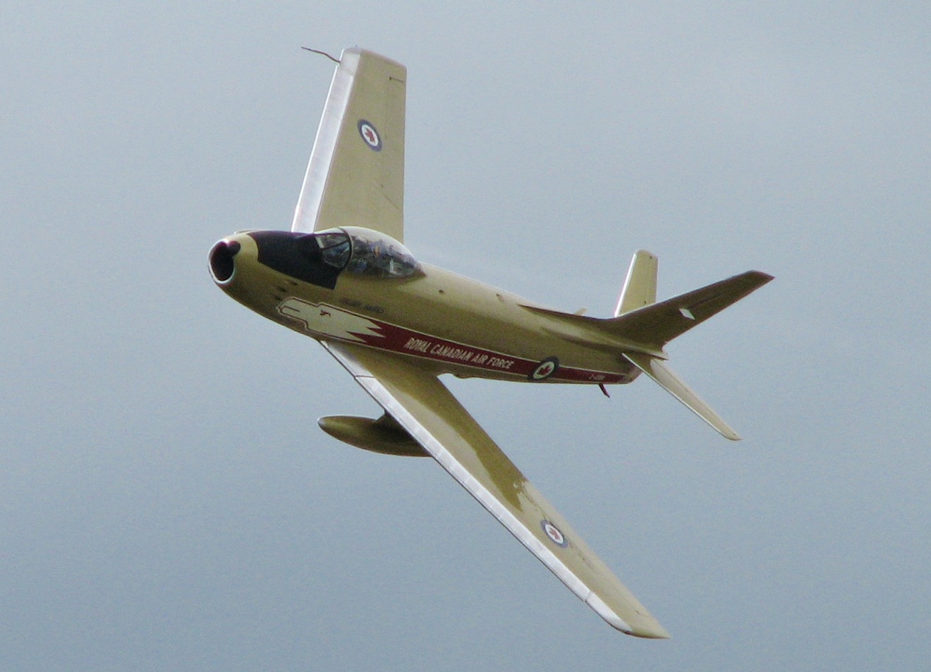 A restored Canadair Sabre mark 5 painted in Golden Hawks livery. The plane is known as "Hawk One" and was restored to flying condition to celebrate one hundred years of powered flight in Canada. Photo taken at the 2009 Portage-la-Prairie air show.